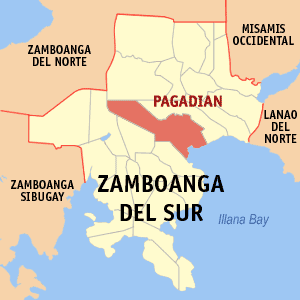 Map of Zamboanga del Sur showing the location of Pagadian